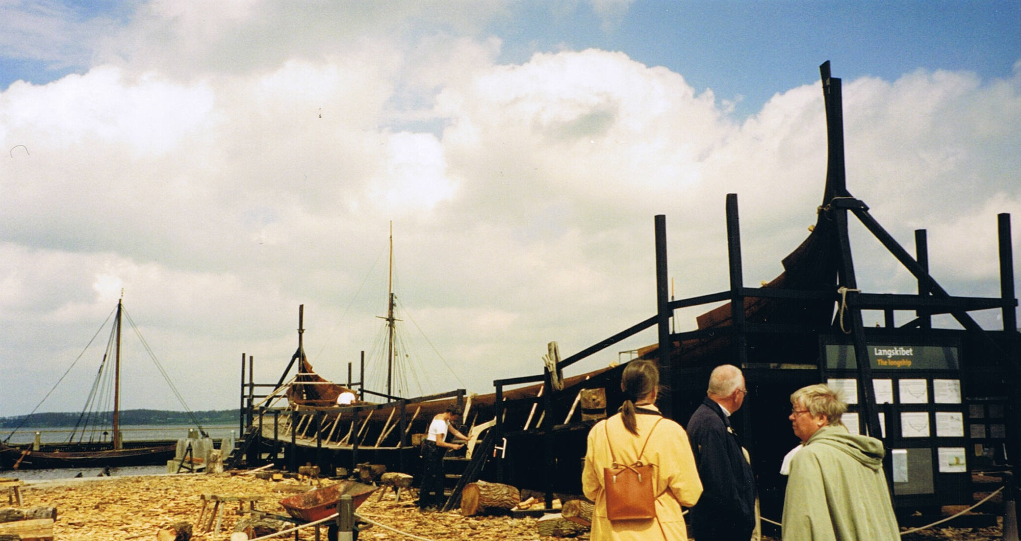 Reconstruction of long viking ship for the viking ship museum, in Roskilde, Denmark. The reconstructed ship was later named Havhingsten fra Glendalough.